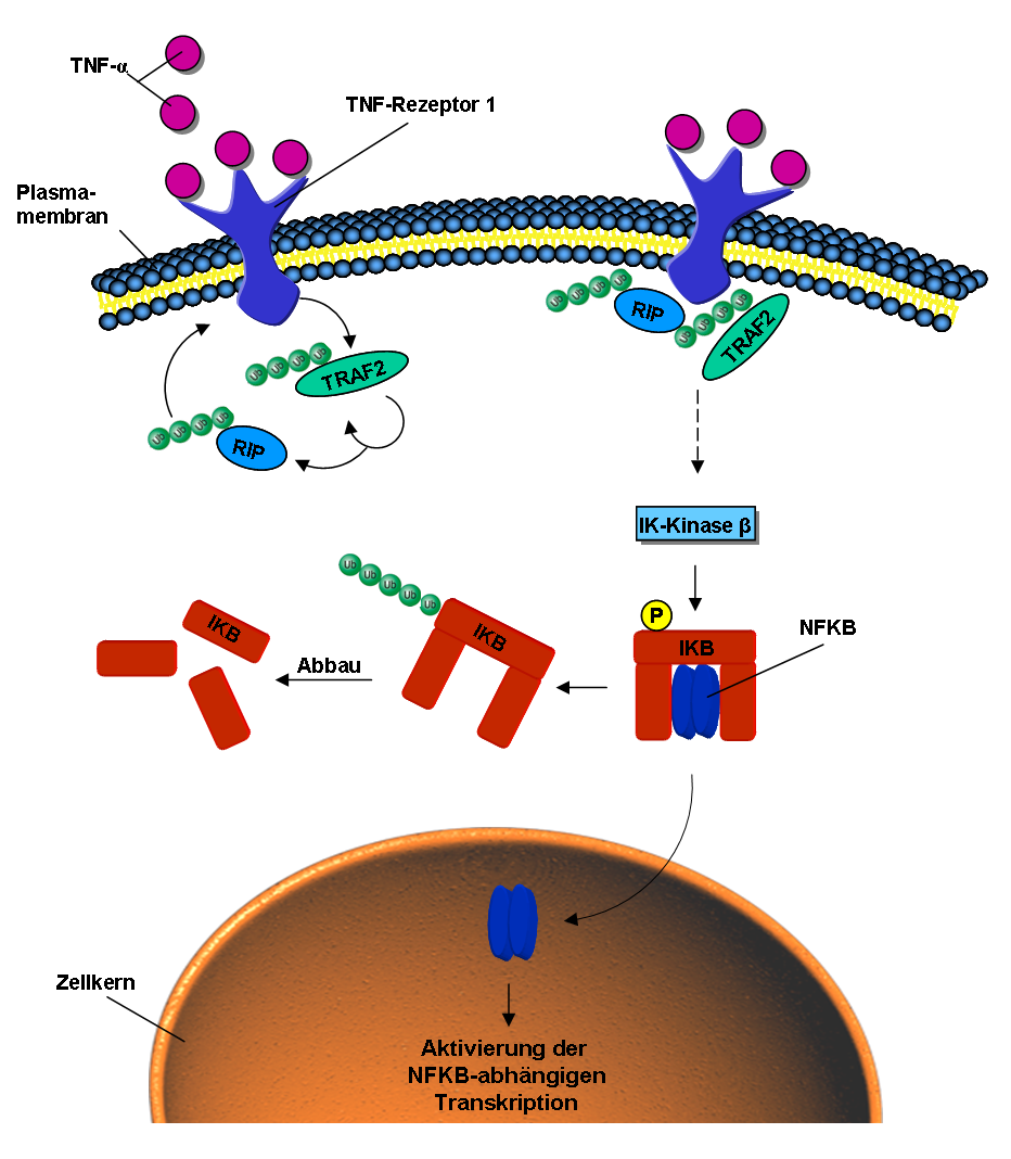 Involvement of Ubiquitin in the NFKB pathway